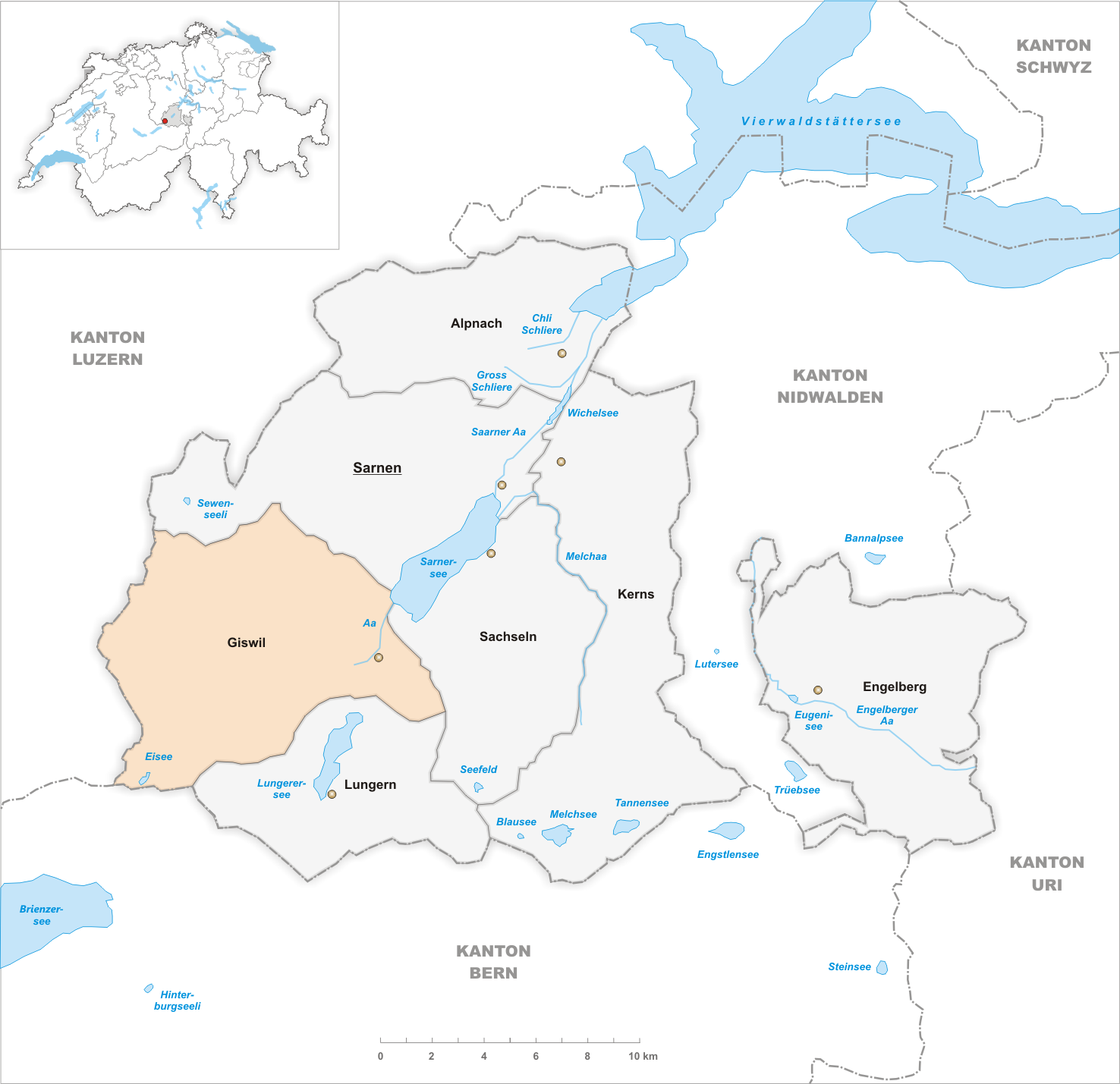 Municipality Giswil